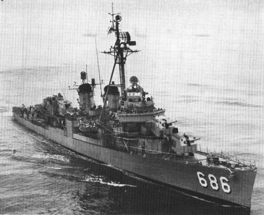 The U.S. Navy destroyer USS Halsey Powell (DD-686) underway, circa 1959.